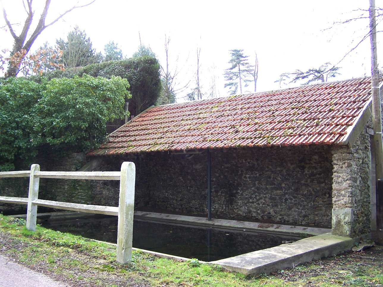 Wash house in Les Mesnuls (Yvelines, France)